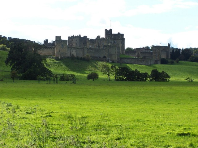 Alnwick Castle. From the Pastures (north)